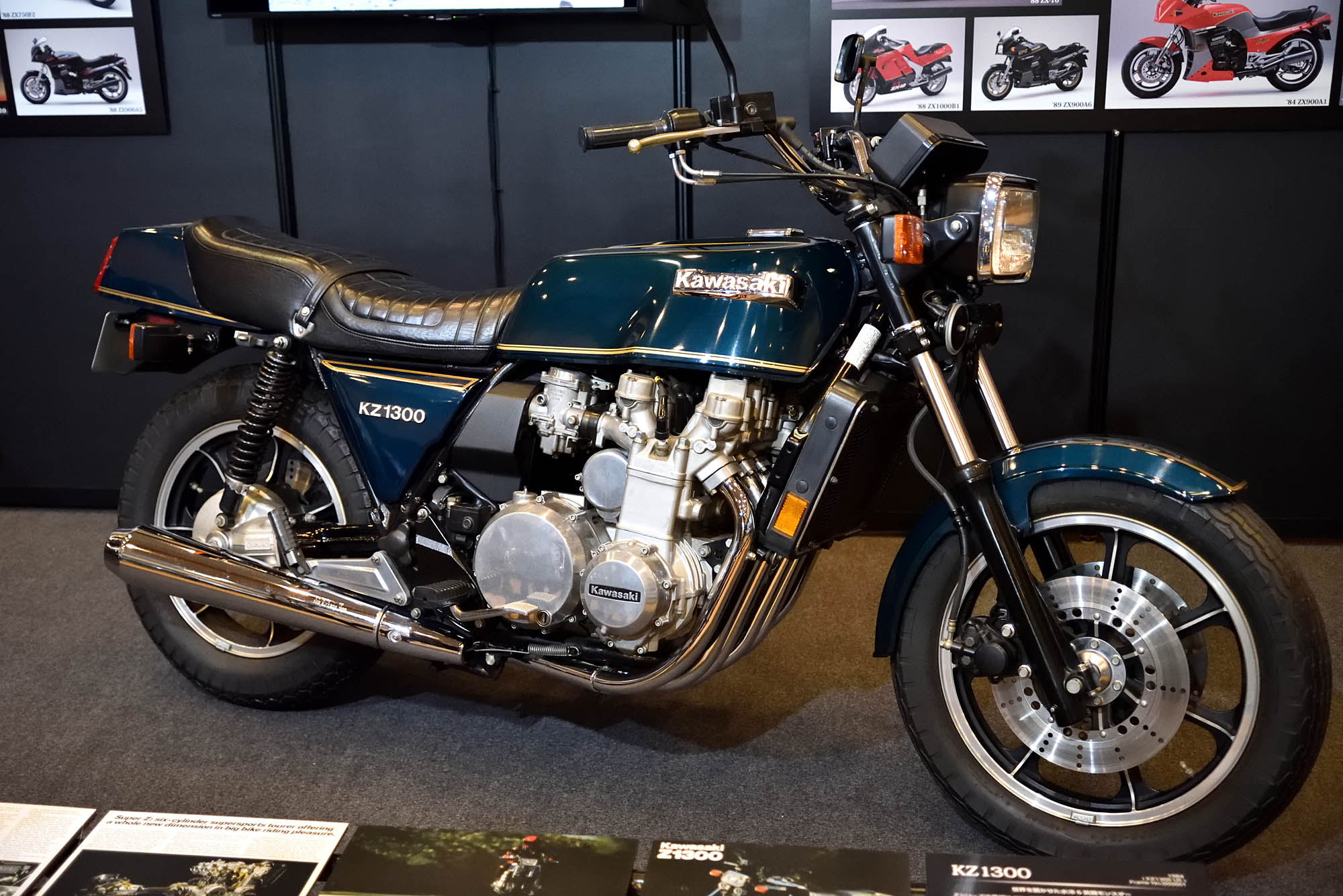 Kawasaki Z1300 (KZ1300 US, 1984)